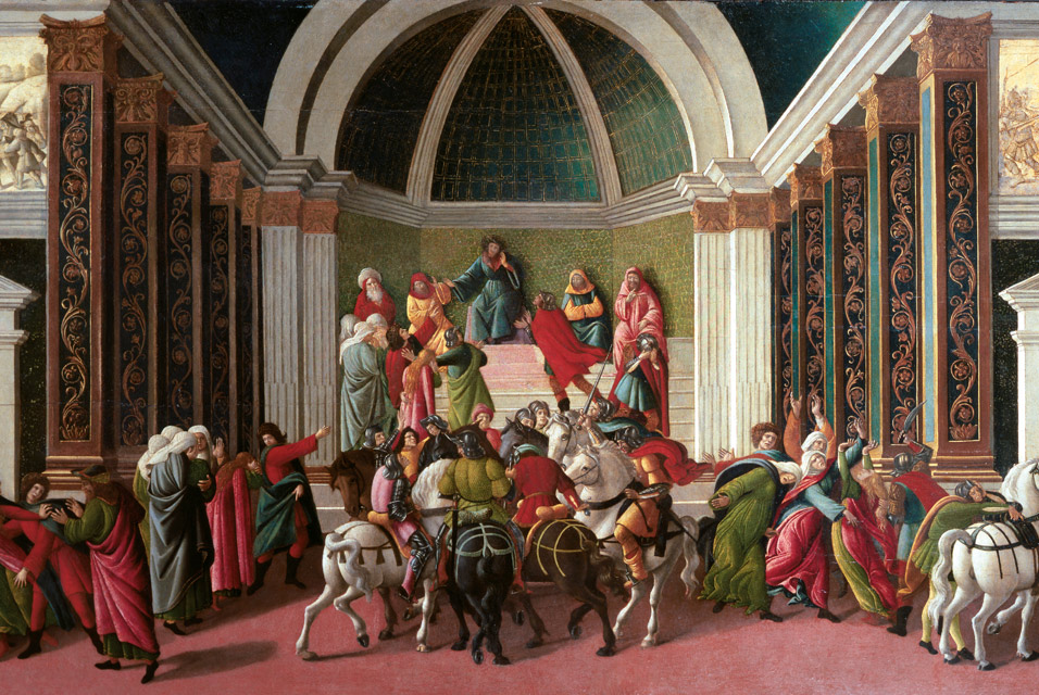 The story of Virginia the Roman(detail)